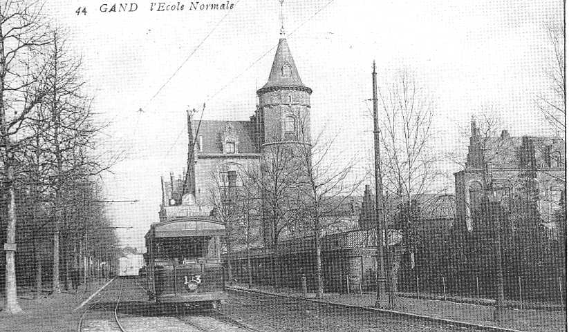 Tram 4 in de Hofbouwlaan